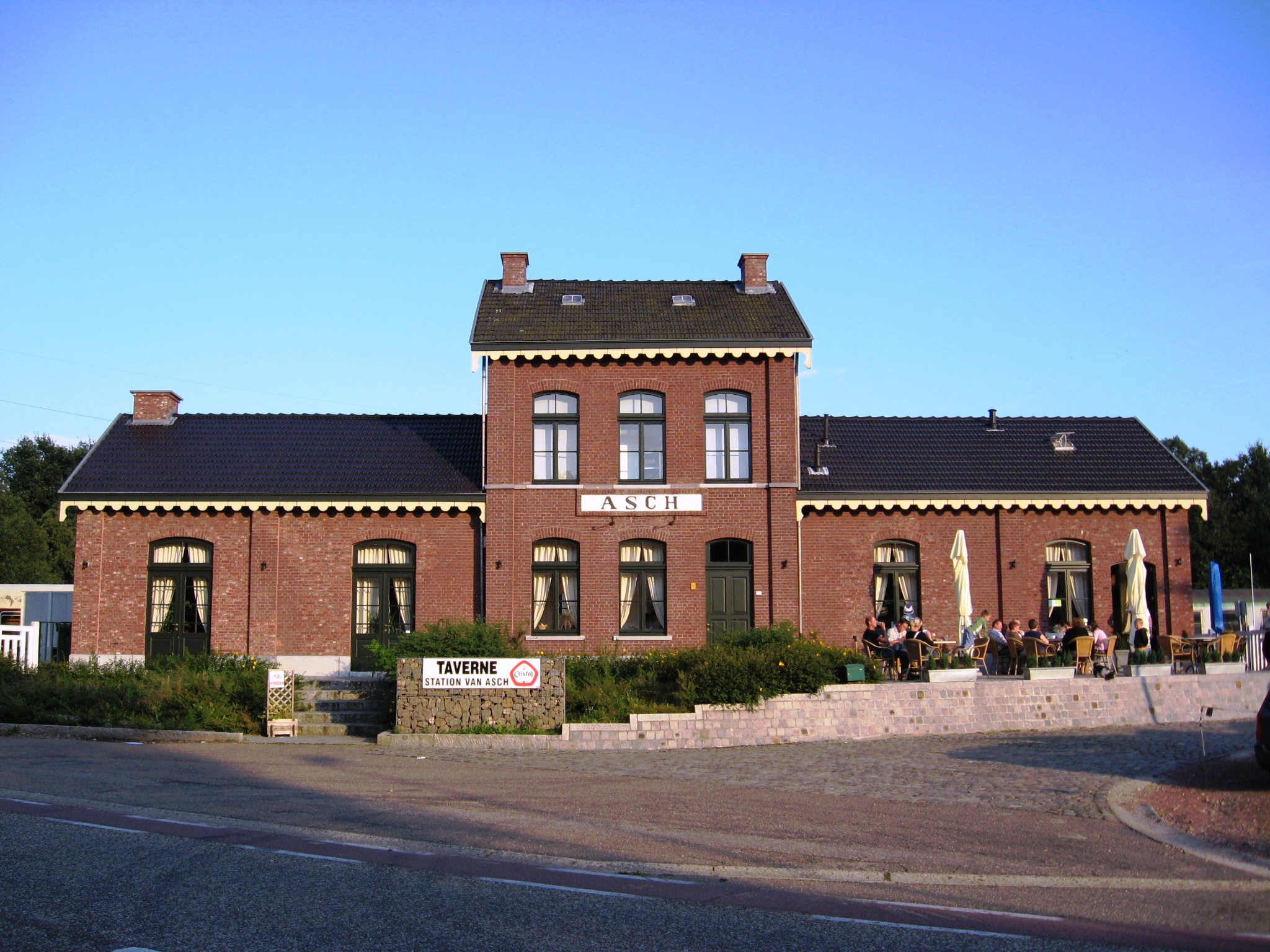 Former train station of As, Limburg, Belgium